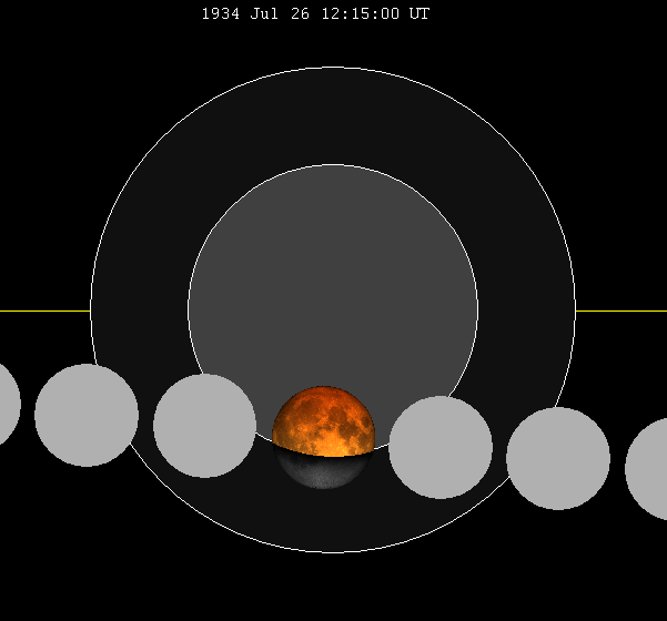 July 1934 lunar eclipse chart of moon's path through the earth's shadow. thumb